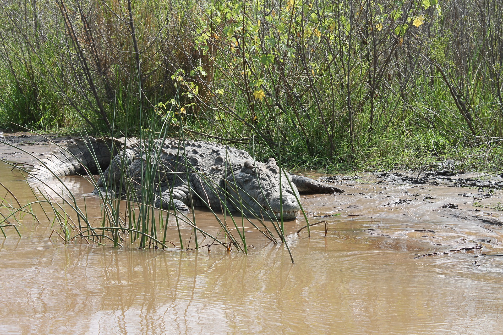 A Nile crocodile at the river bank in Ethiopia.